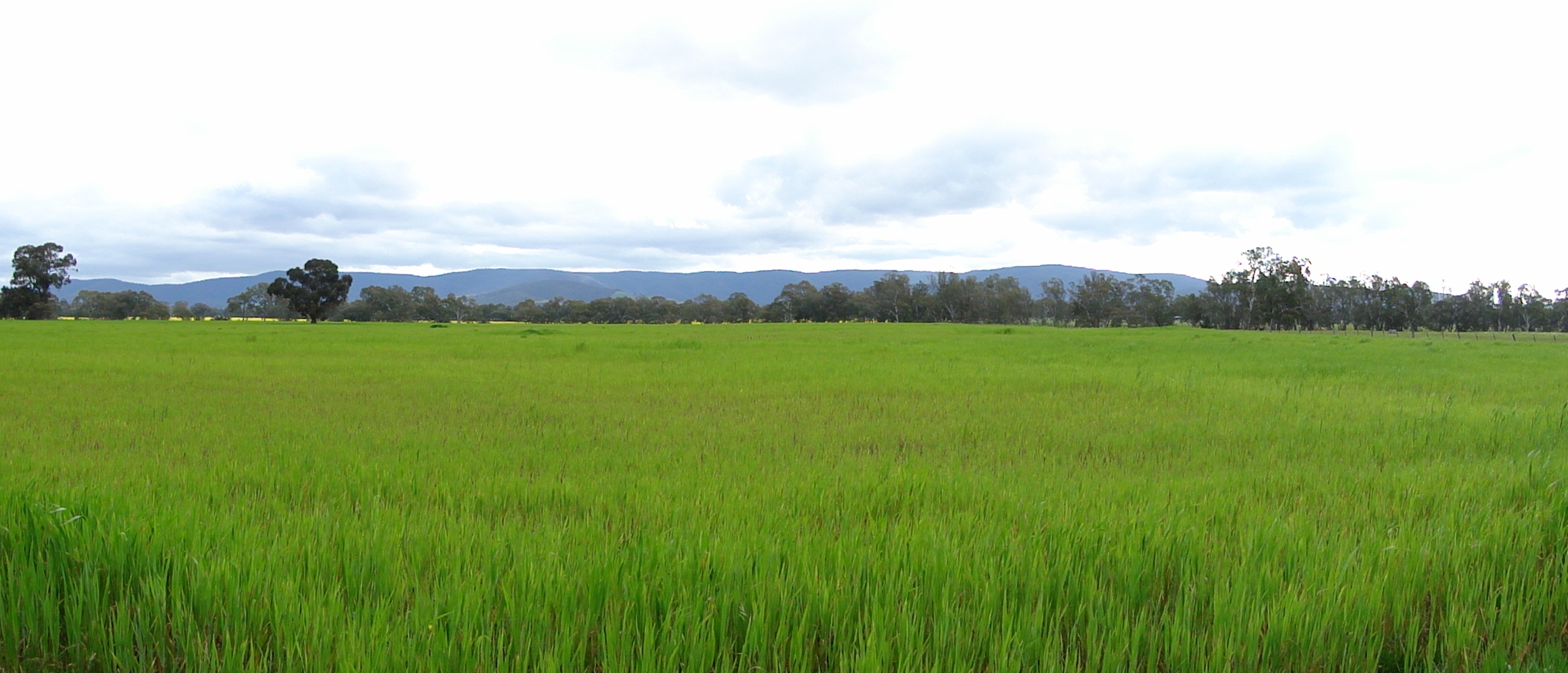 A view of the Pyrenees ranges, from Avoca, Victoria, Australia.